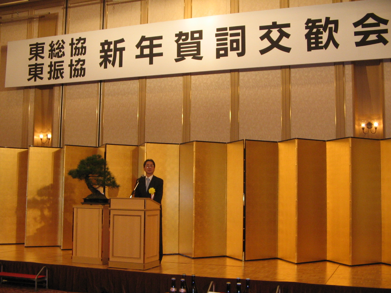 The General manager of society insurance of Kanto Shinetsu public welfare bureau as District Offices of Insurance Bureau in Ministry of Health, Labour and Welfare that takes the rostrum and describes the ambition at the new year at the New year's greetings poetry exchanging courtesies association of the Metropolitan Conference of Integrated Health Insurance Association(MCIHIA) in Room of Fuji as second floor in Memorial of the Meiji era.